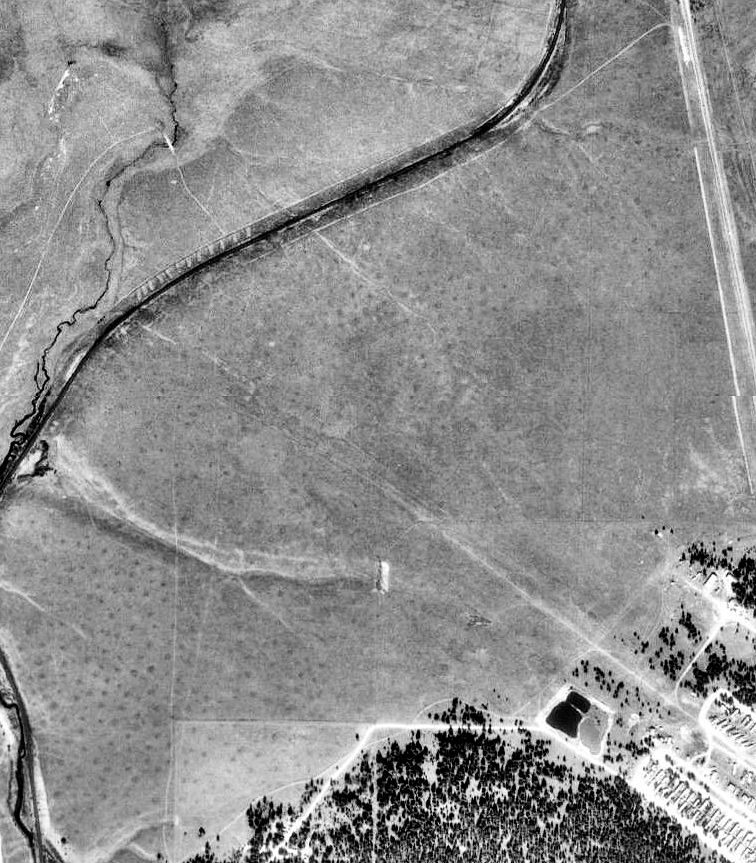 USGS orthophoto showing location of the former Leadville Army Airfield, Colorado